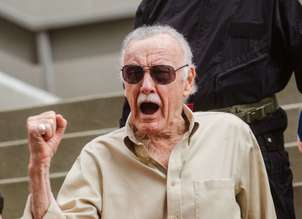 DragonCon 2012 - Marvel and Avengers photoshoot